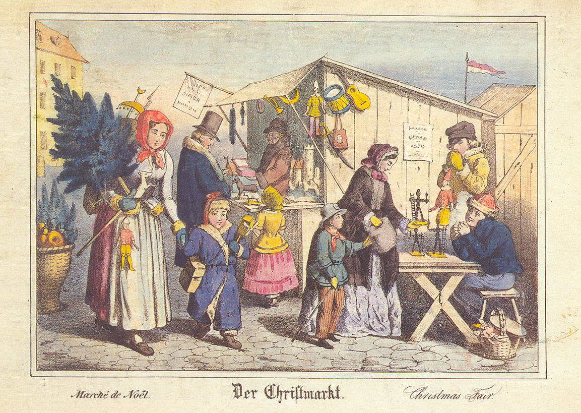 Christmas Market in Nürnberg, Germany. Litography from the 19th century. Germanisches Nationalmuseum, Nürnberg, Germany